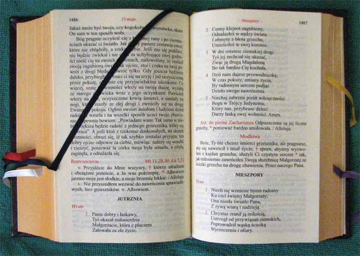 Franciscan Breviary, Poland 2013